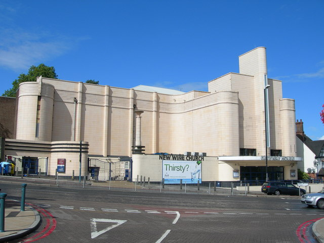 View from Powis Street of New Wine Church, Woolwich, South East London. A Streamline Moderne building designed by George Coles and built as an Odeon cinema in 1937. Later a Coronet cinema, and now a church.